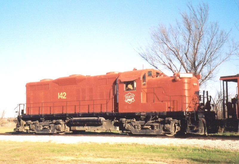 Missouri Kansas Texas (MKT) locomotive #142 Currently owned and operated by the Midland Railway of Baldwin City ALCO model RS-3 – built in 1951 Re-engined in 1959 by EMD with a 1,500 h.p. 16-567C engine “Barriger” red paint scheme It was near Ottawa, on the Midland Railway. This locomotive was pulling a "Santa Claus" train.